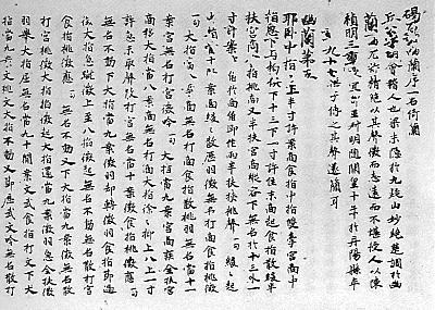 A photocopy of part of the Tang manuscript, Jieshidiao Youlan, held at Kyoto, Japan.